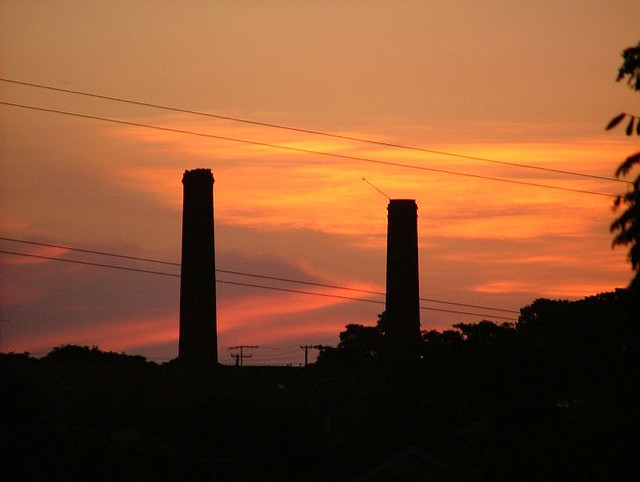 Sunset in Ourinhos, São Paulo, Brazil.